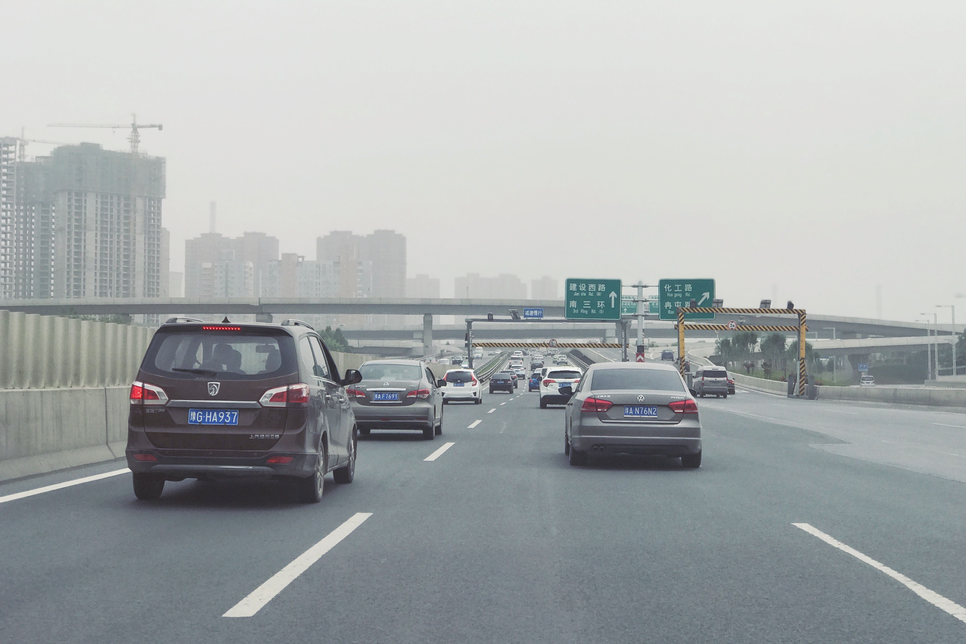 West 3rd Ring Road and Nongye Expressway Interchange